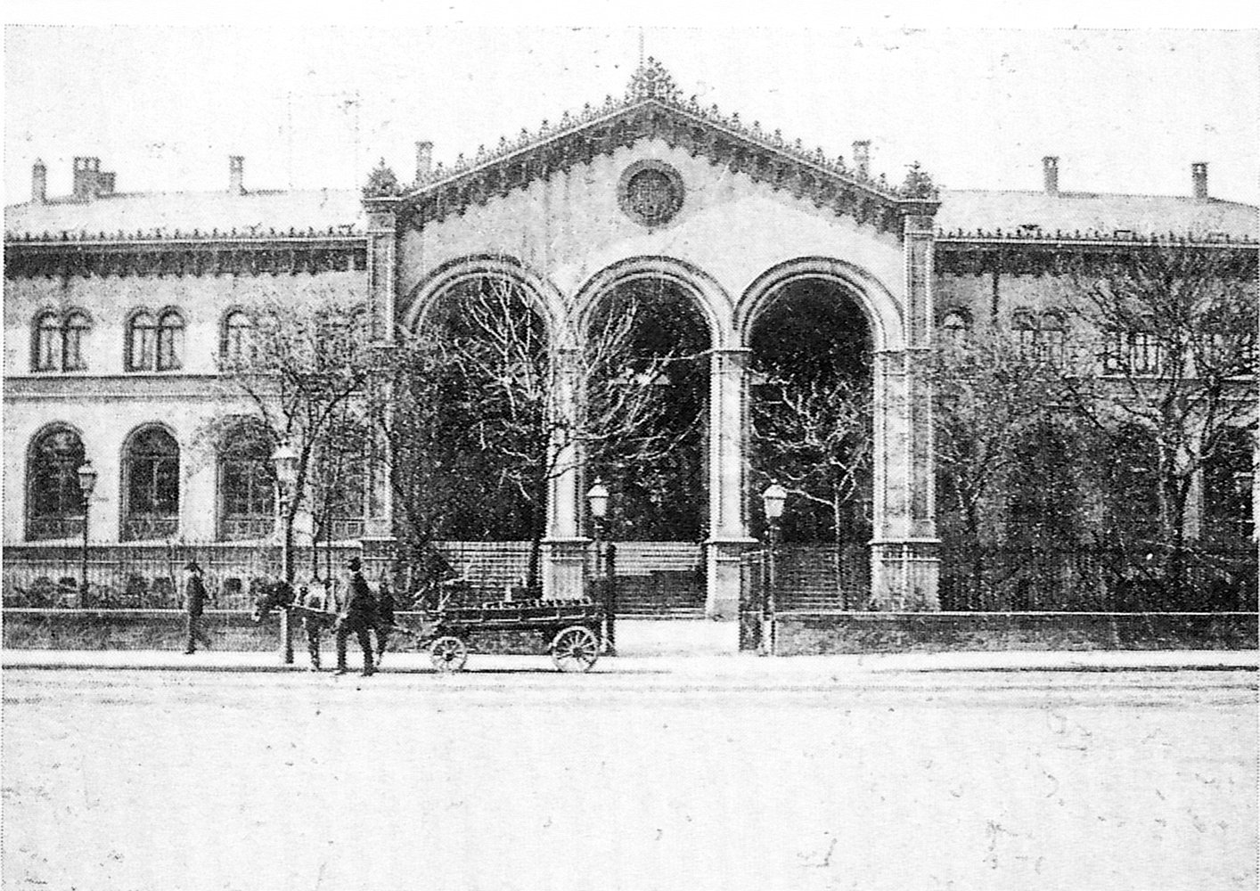 The Main-Neckar station in Frankfurt am Main